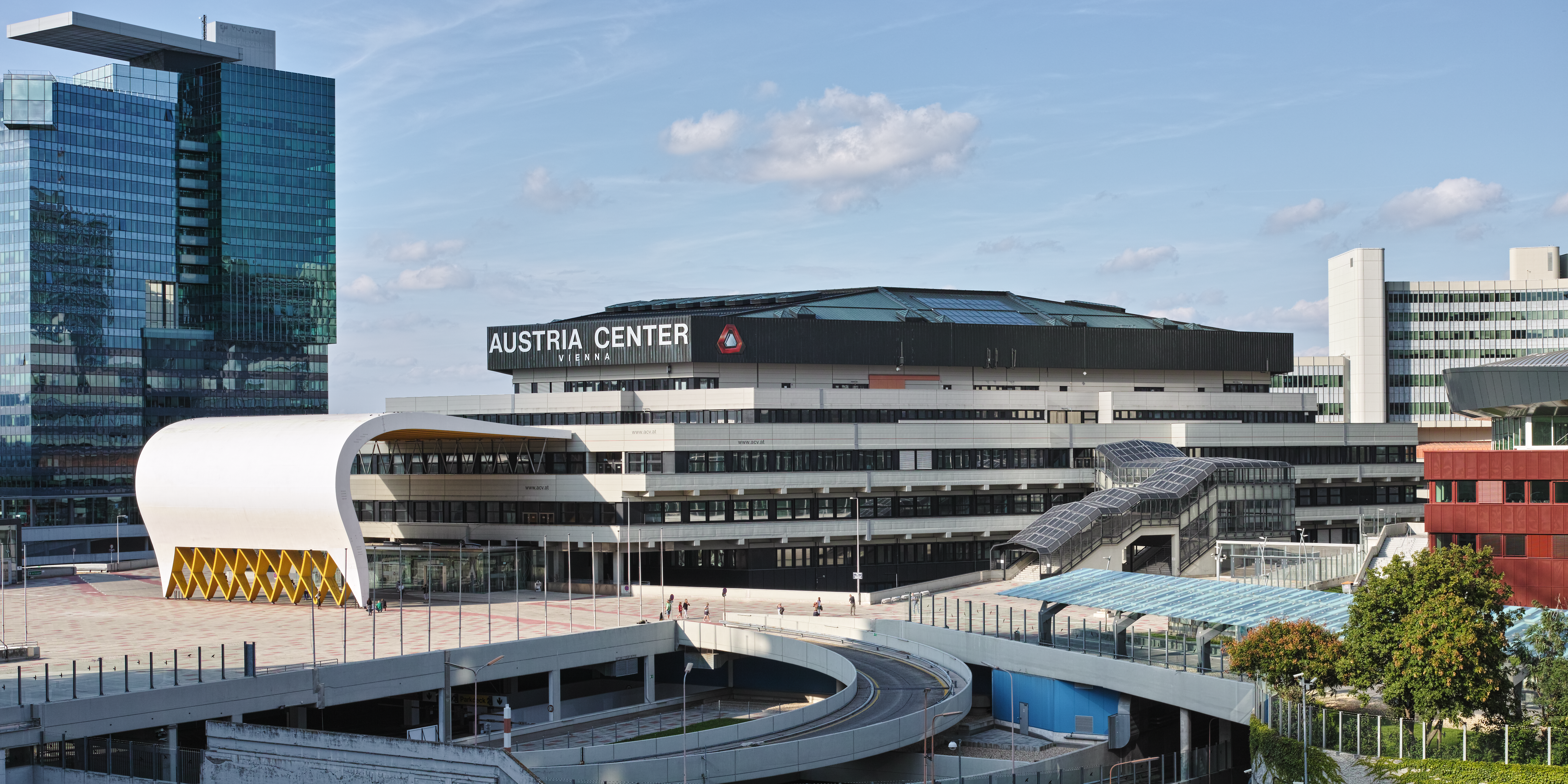 The Austria Center Vienna from south-southwest on August 22, 2014.